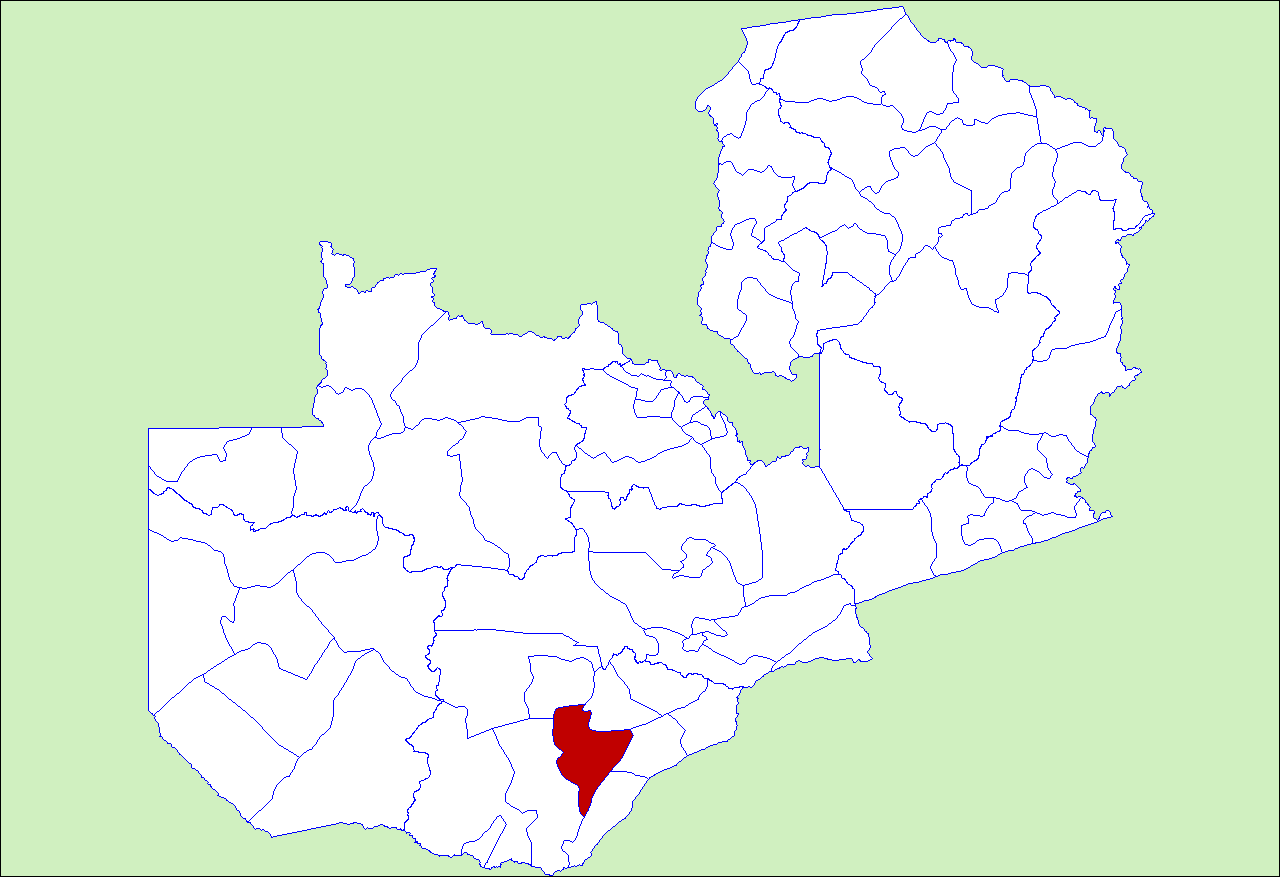 District locator in Zambia